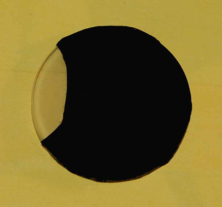 Kreutzblende Kreutz-Blende